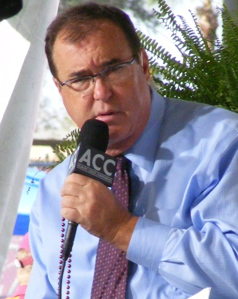 Mike Hogewood, broadcaster for ACC college football games on Lincoln Financial Sports